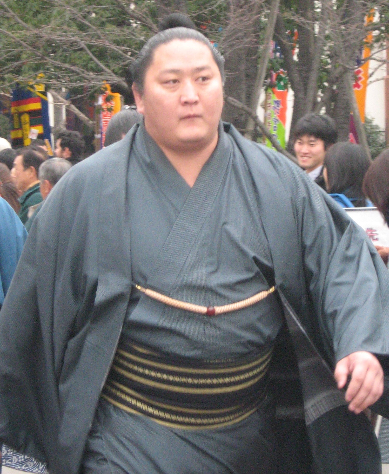 This is a photograph I took at a recent sumo tournament that I release the rights of. User:FourTildes 08:15, 31 May 2008 . . FourTildes . . 1,498×1,823 (1.32 MB)